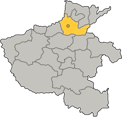 The prefecture-level city of Xinxiang is highlighted on this map of Henan province, People's Republic of China.